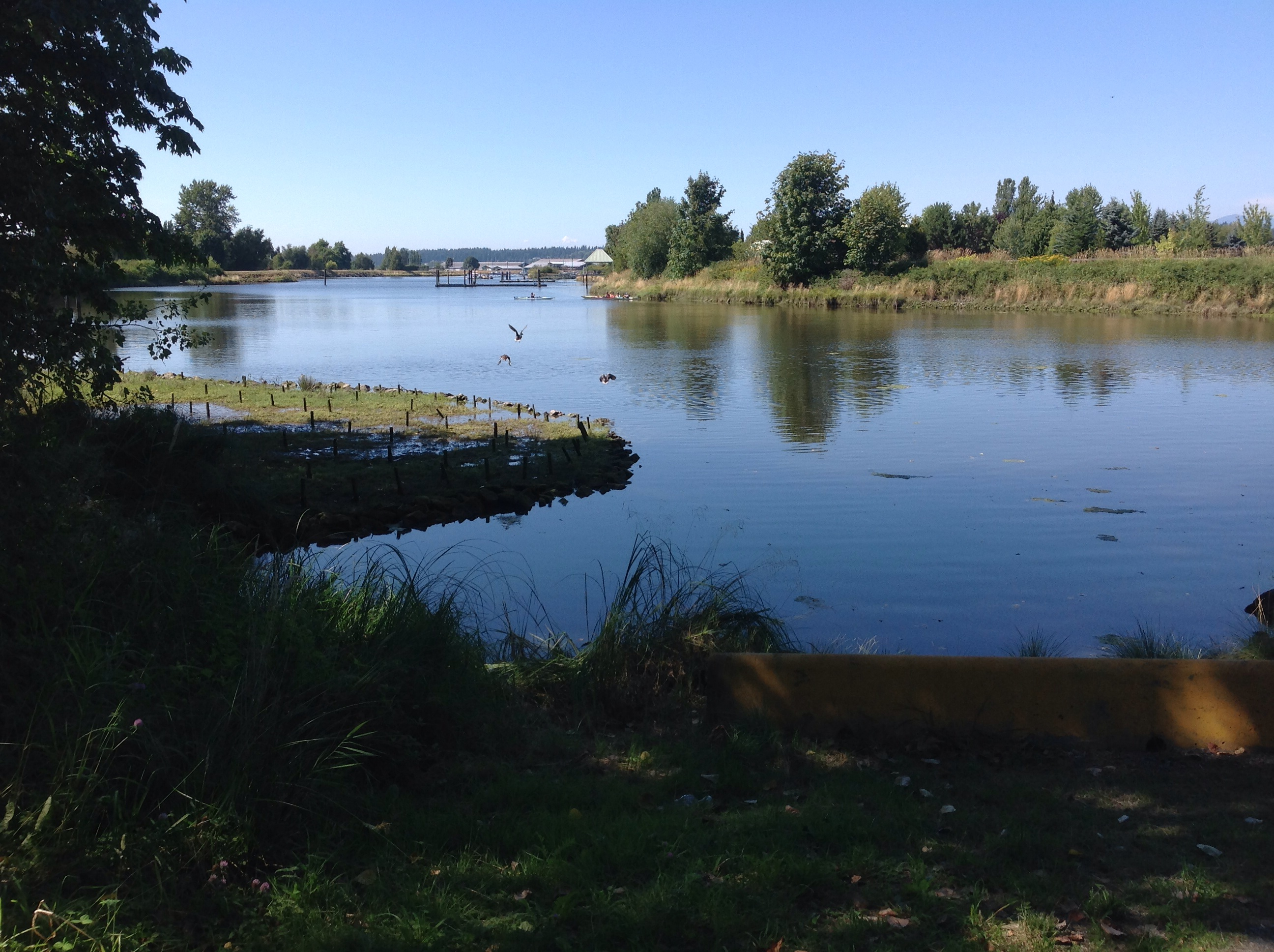 West-facing view of Nicomekl River towards where its mouth meets Mud Bay in Surrey, British Columbia